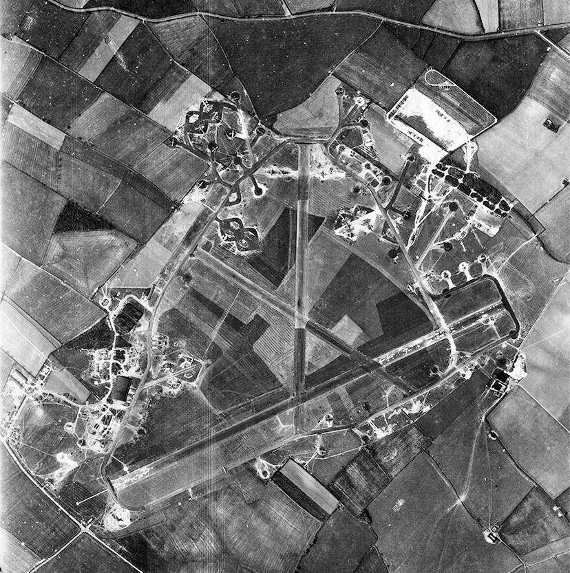 Aerial photograph of RAF Chelveston airfield, oriented north, 9 May 1944. Photograph taken by 13th Photographic Squadron, 7th Photographic Reconnaissance Group, sortie number US/7GR/LOC334. English Heritage (USAAF Photography).